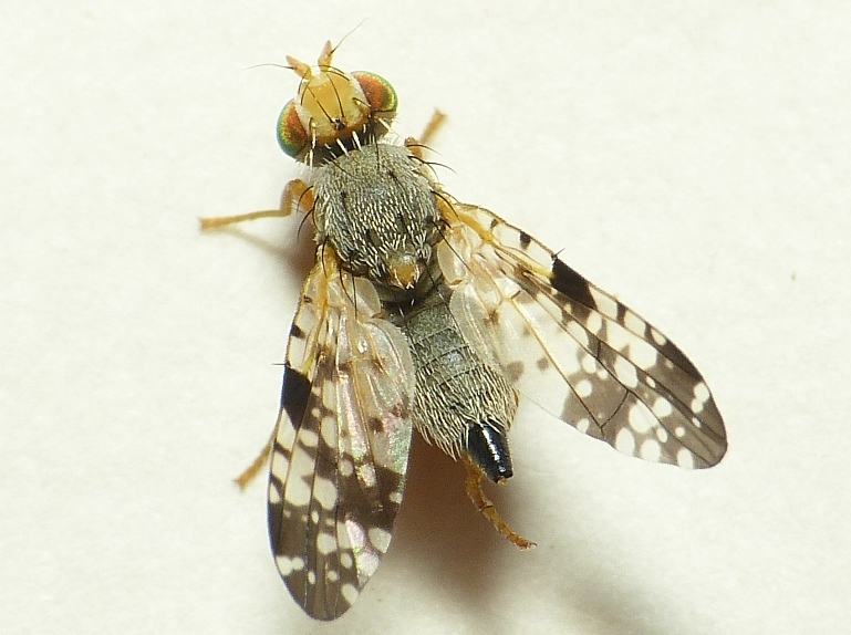 Campiglossa malaris, location: The Netherlands - Wageningen - Plasserwaard